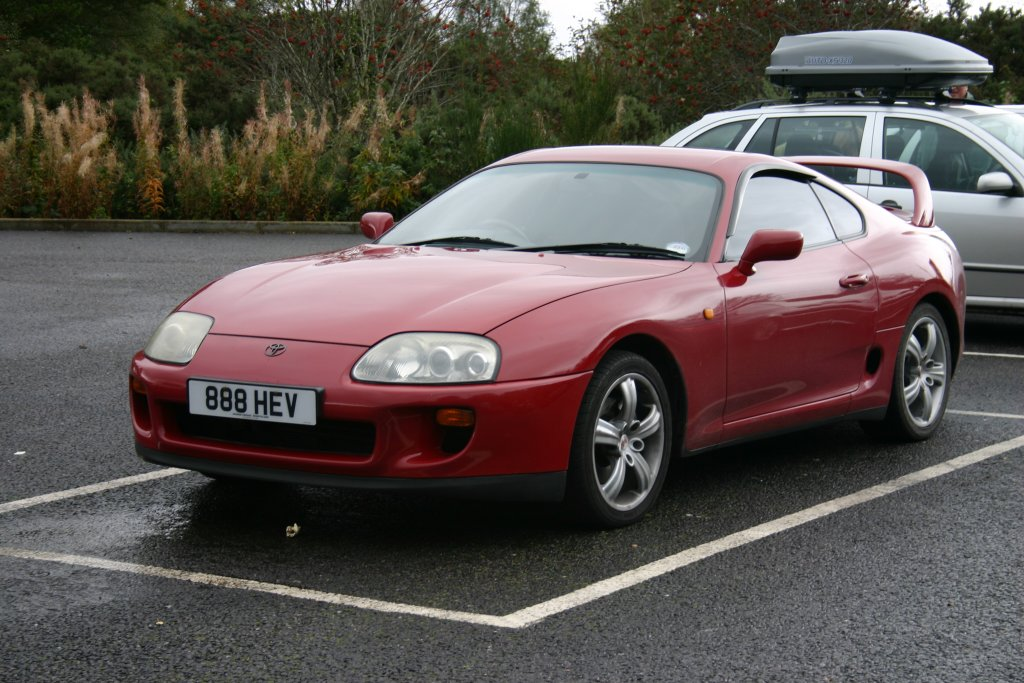 Toyota SupryA potentional "Other Marque"?